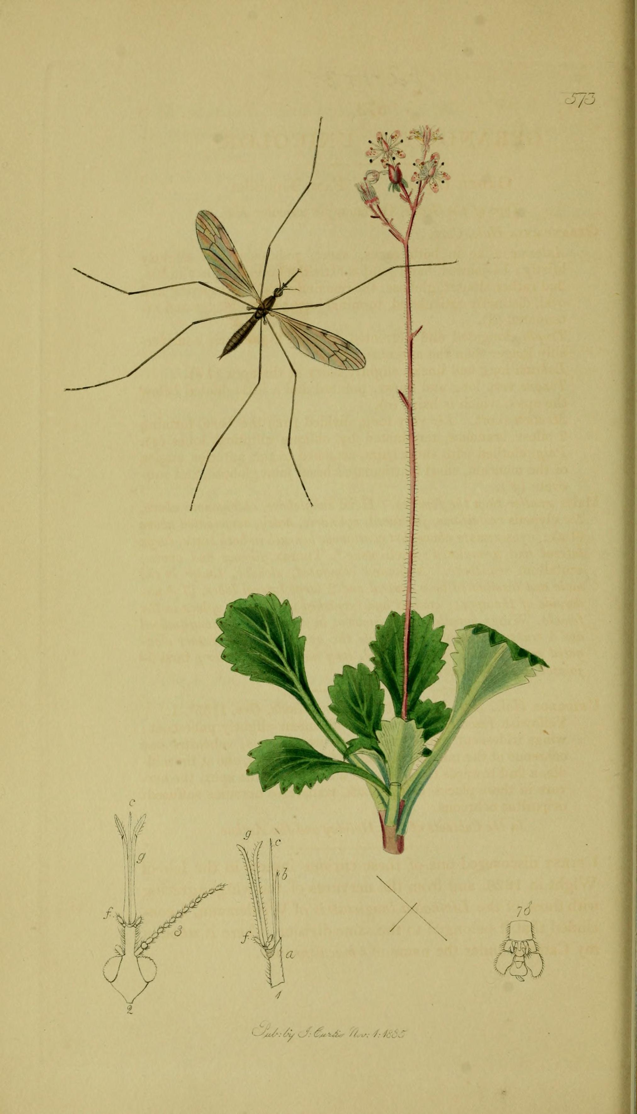 John Curtis British Entomology (1824-1840) Folio 573 Diptera:Geranomyia unicolor (Long-lipped Crane-fly).The plant is Saxifraga umbrosa (London Pride)